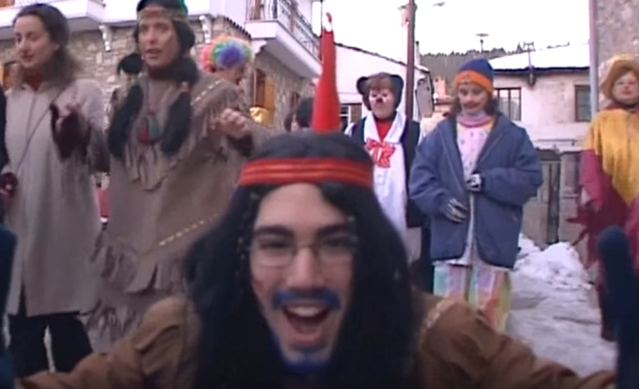 Rangucaria